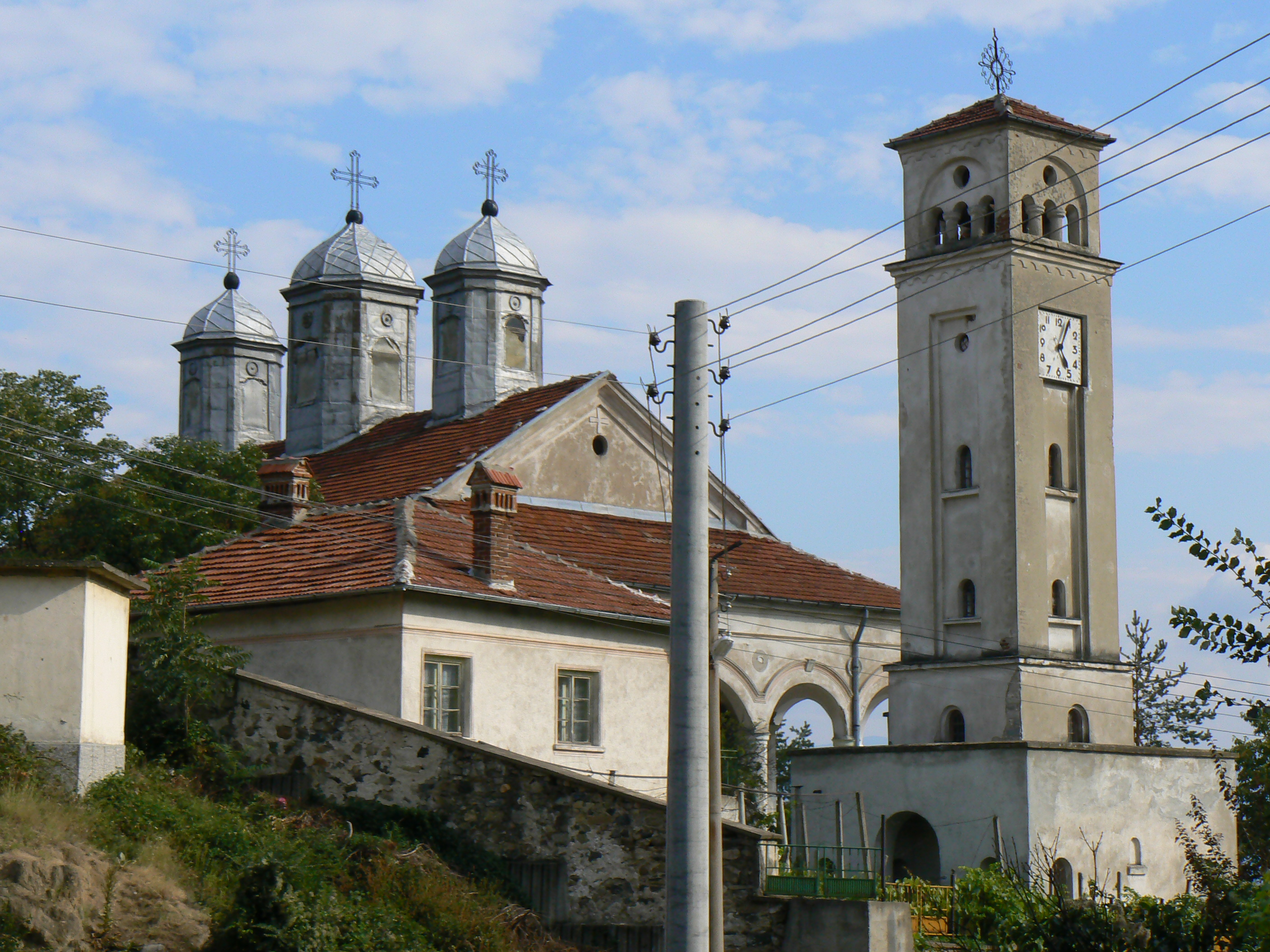 Church "Saint Nikolay" in the town of Vetren, Bulgaria